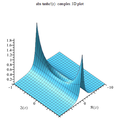 Tanhc'(z) abs complex 3D plot